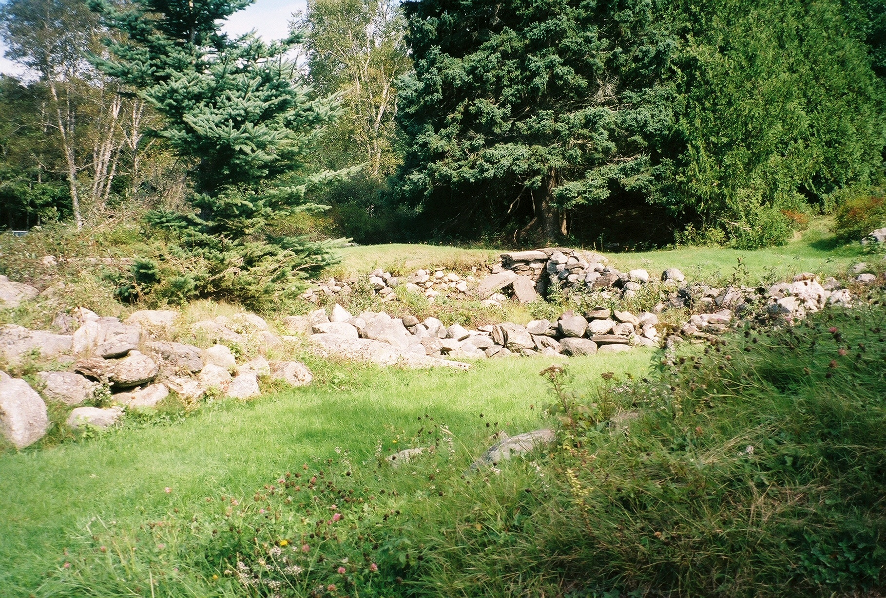 Fort Pownall, Fort Point State Park, Maine